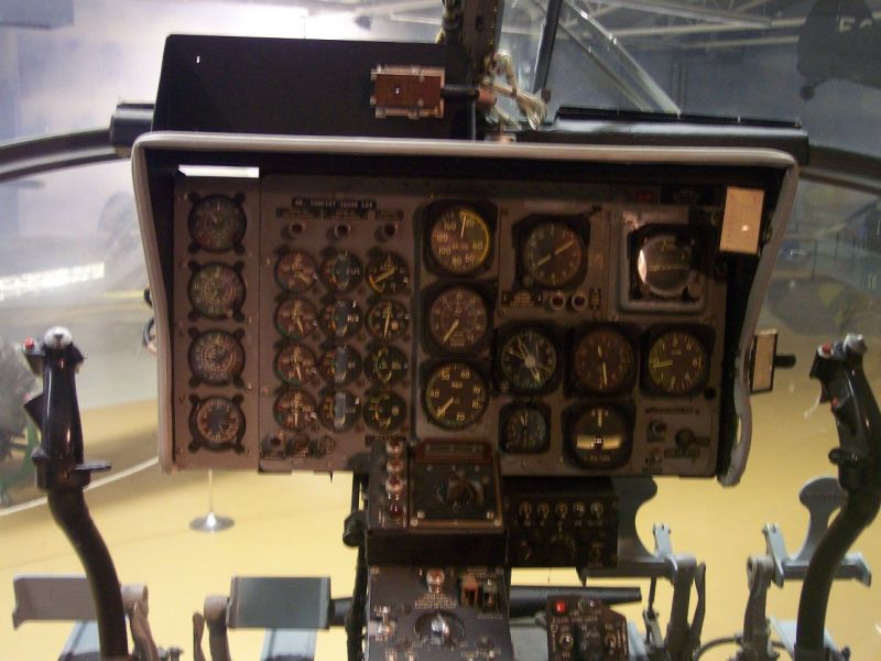 Swedish Piasecki H-21